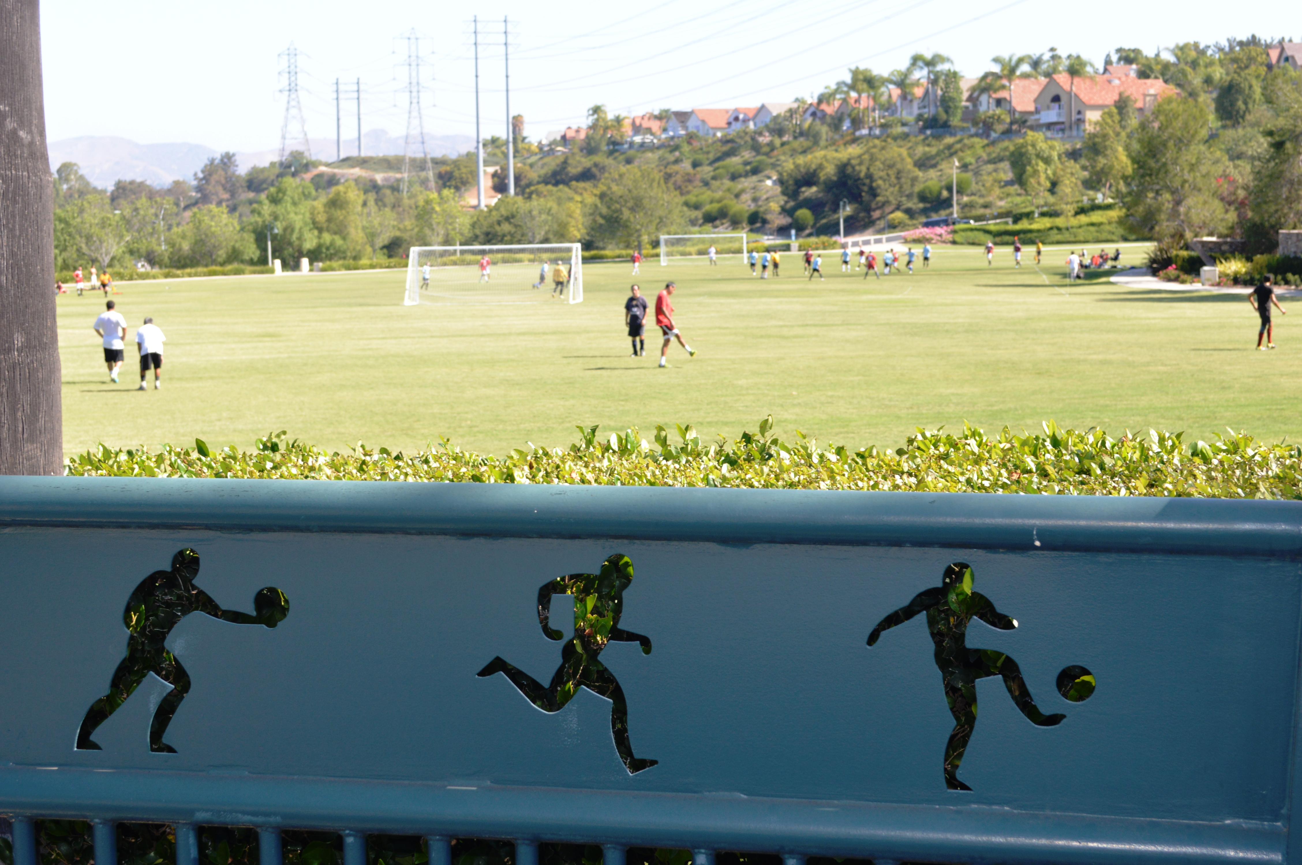 People practicing for a soccer game at Olympiad Park (during the 2014 FIFA World Cup, incidentally), with Canyon Crest homes in the background - Mission Viejo, Orange County, California.